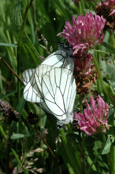 Picture taken in Commanster, Belgian High Ardennes . Species: Aporia crataegi couple